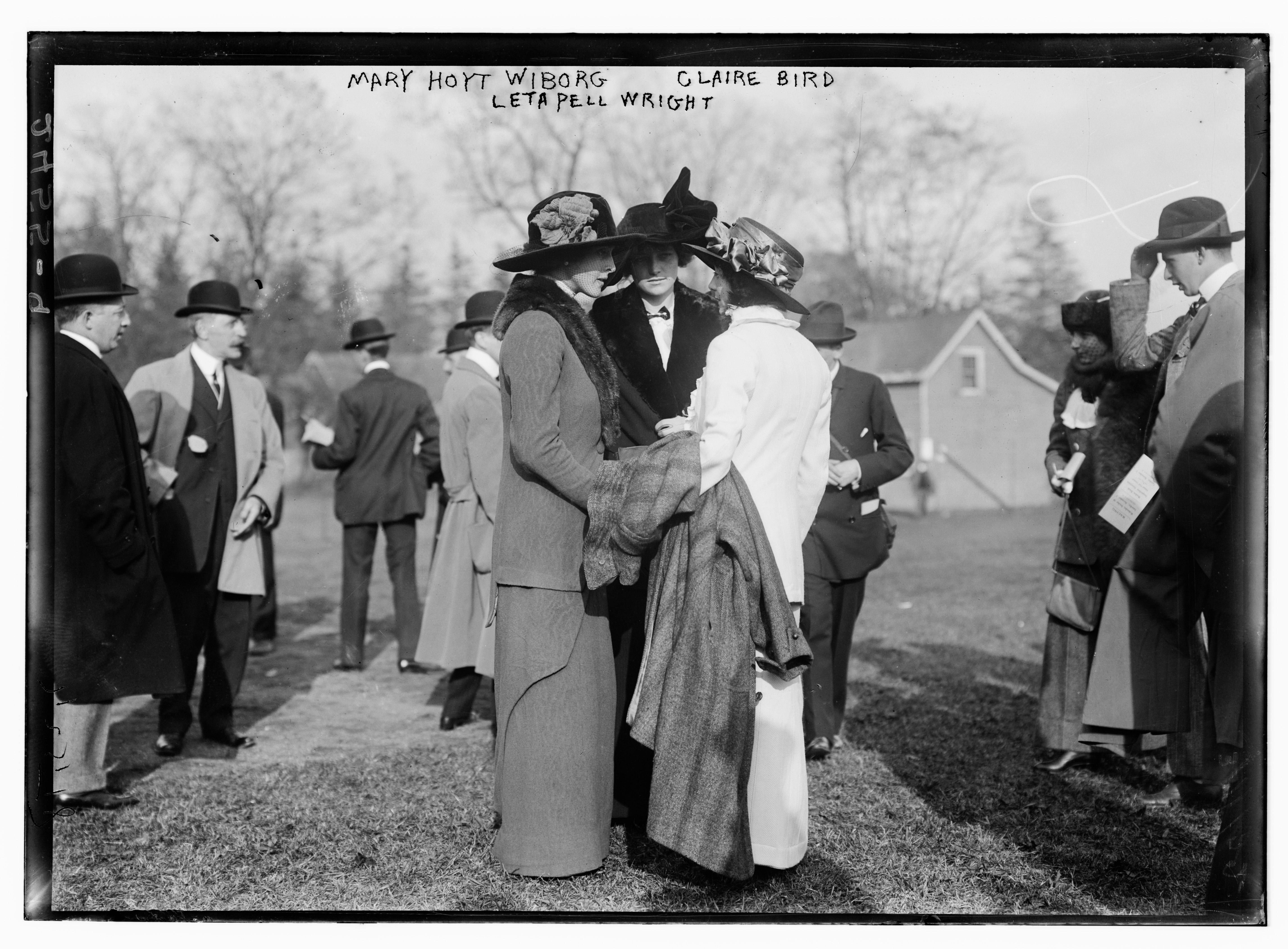 Title: Mary Hoyt Wiborg - Claire Bird - Leta Pell Wright, 3/11/22 Abstract/medium: 1 negative : glass ; 5 x 7 in. or smaller.